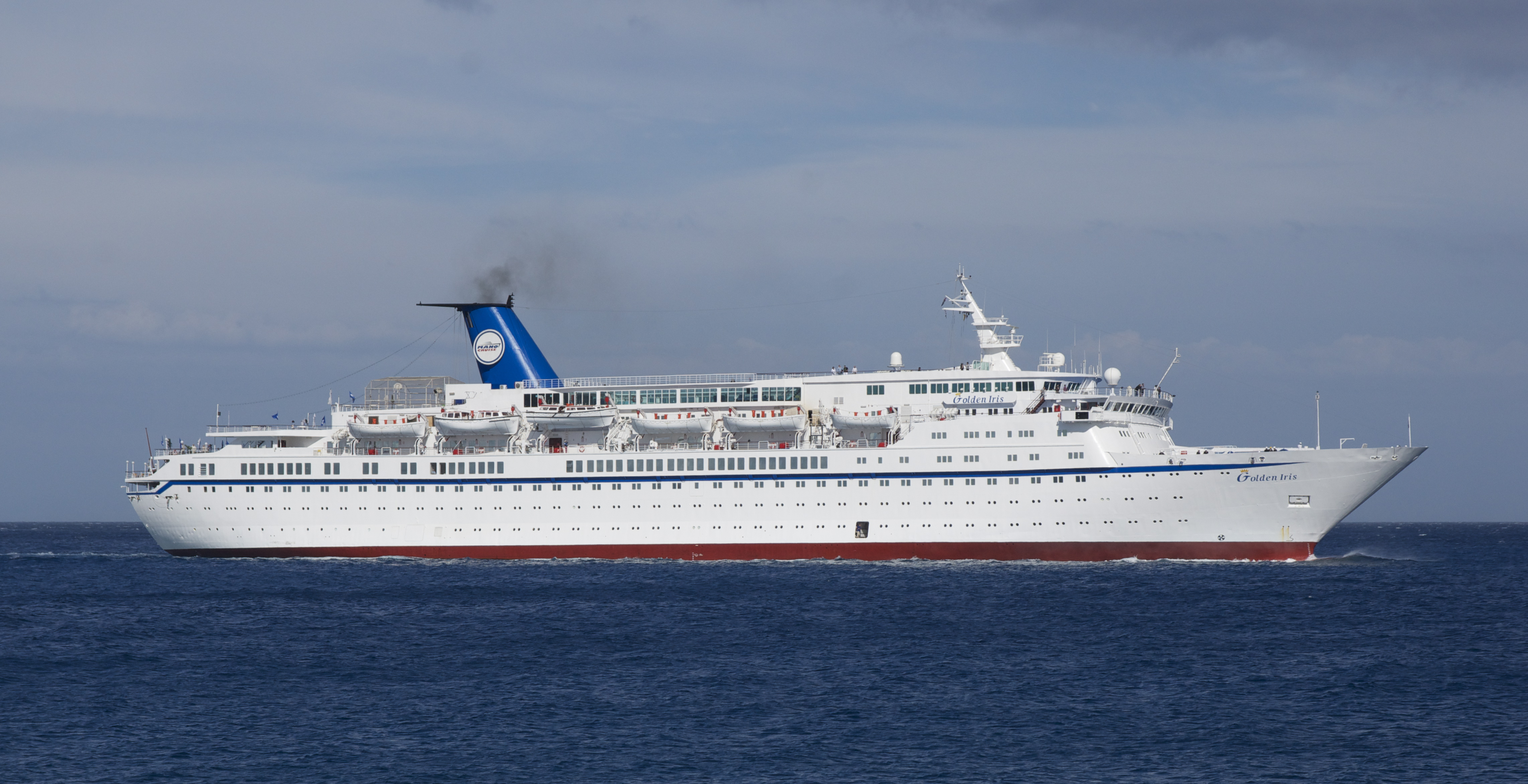 The MS Golden Iris, formerly MSC Rhapsody.